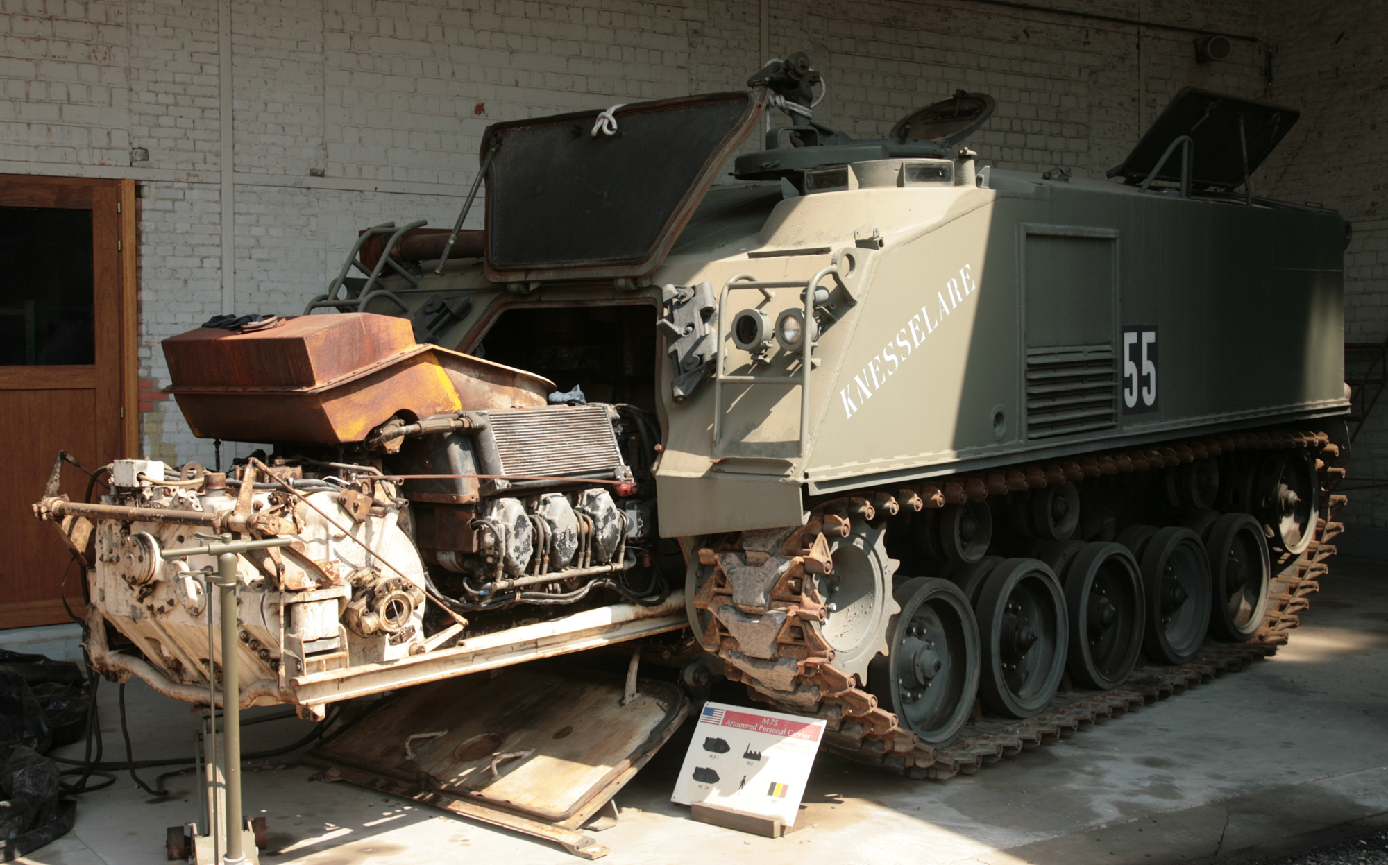 A US built M59 armored personnel carrier at the Army Museum in Brussels